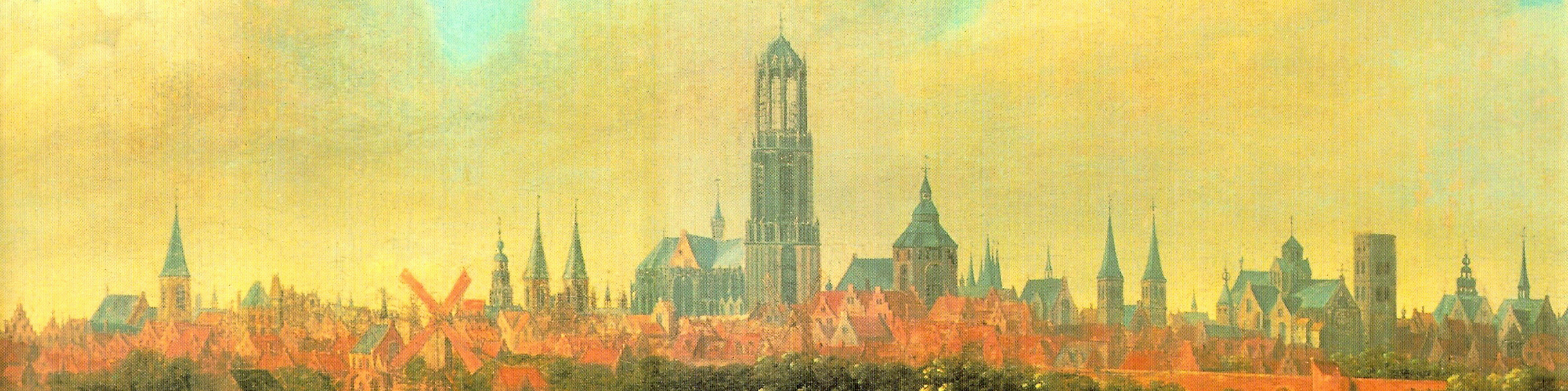 Panorama Utrecht